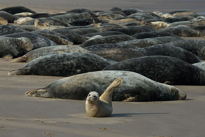 Some of the grey seal colony at Donna Nook, Lincolnshire, common seal pup at front.